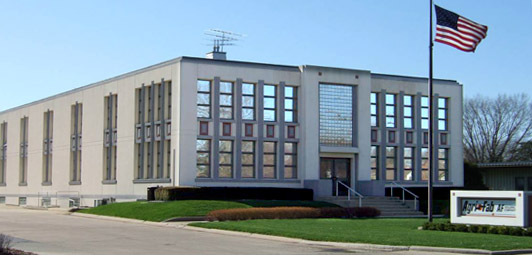 Agri-Fab administrative building, Sullivan, Illinois